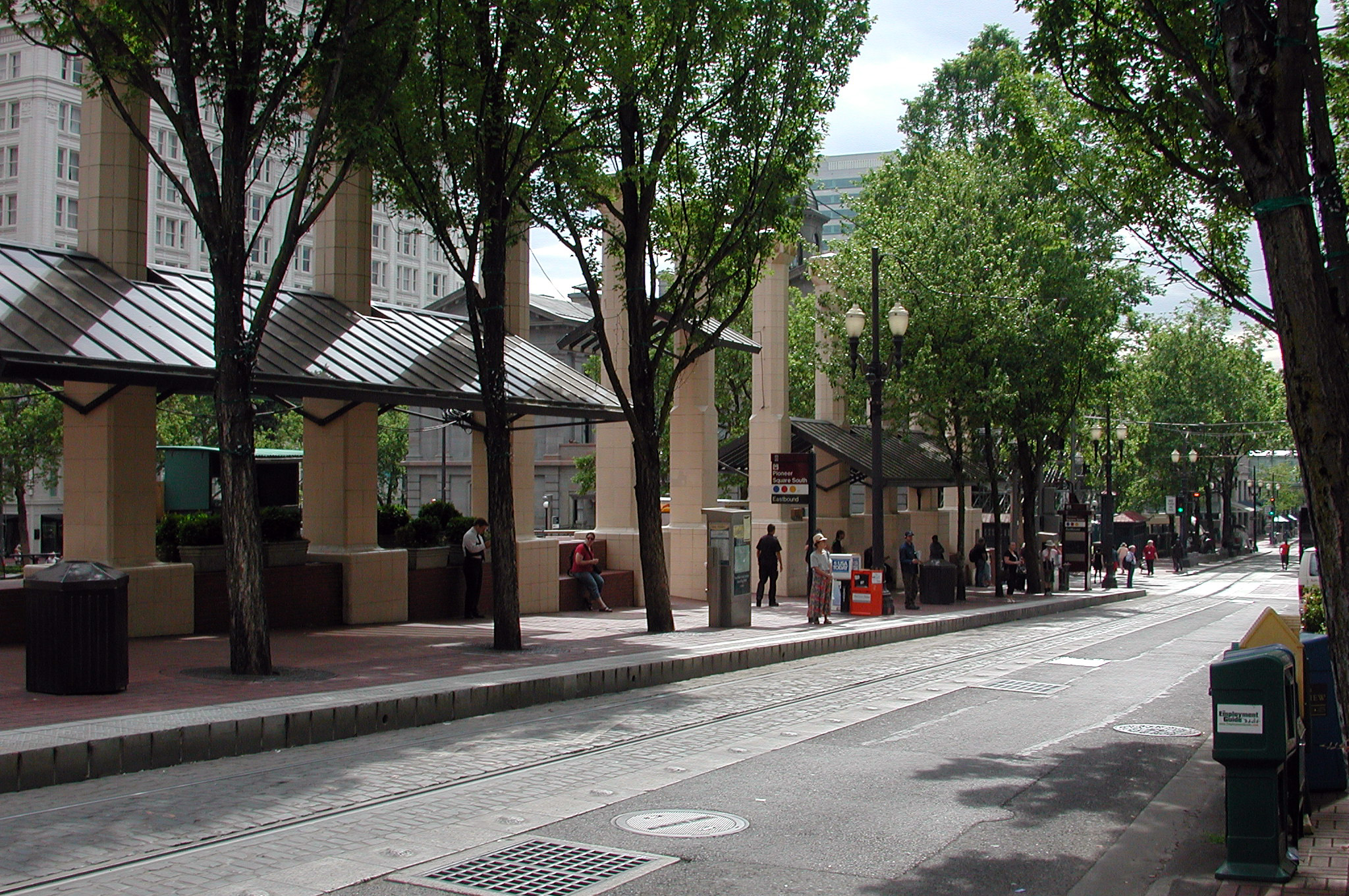 Pioneer Square South station of the Metropolitan Area Express (MAX) light-rail system in Portland, Oregon, United States, looking northeast